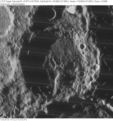 LO-IV-178-H